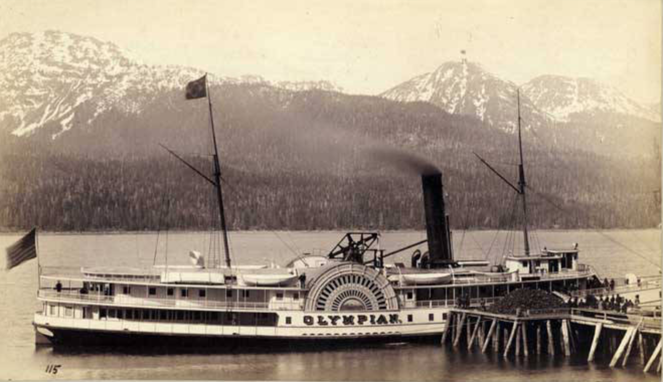 Steamer Olympian at dock in Alaska circa 1887.